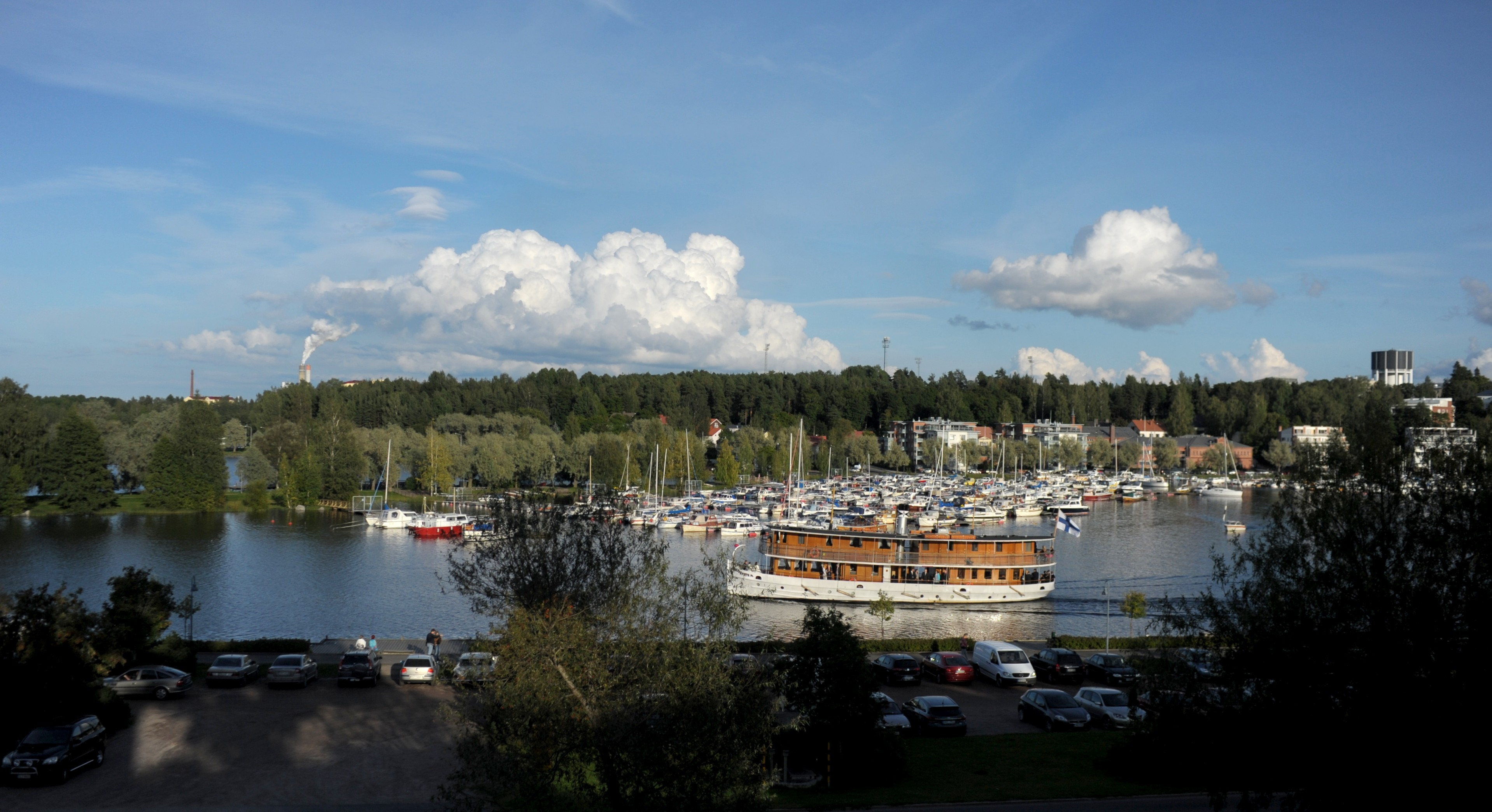 S/S Leppävirta, Lappeenranta August 23rd 2012